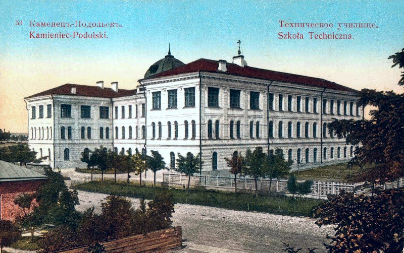 Pre-revoluition postcard featuring the Kamyanets-Podilsk University.